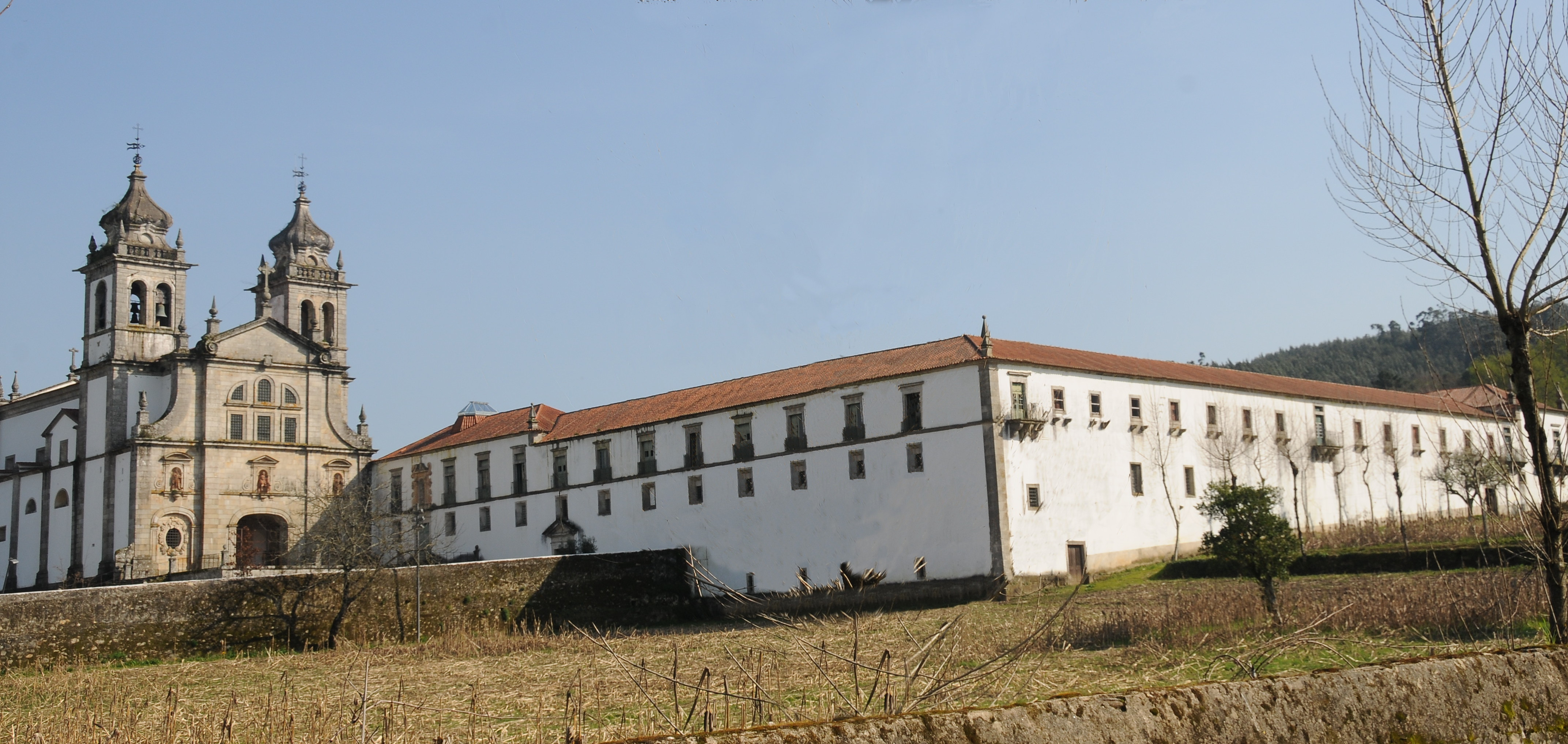 Tibães Monastery